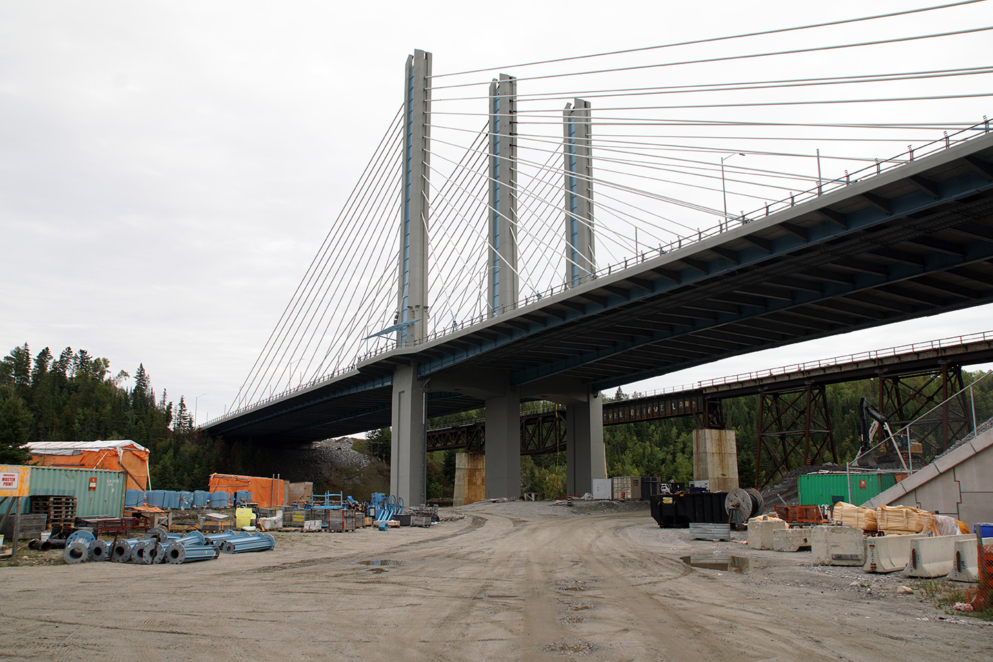 This cable stayed bridge carries Highway 11/17 (the Trans-Canada Highway) overtop of the Nipigon River, in Nipigon ON.